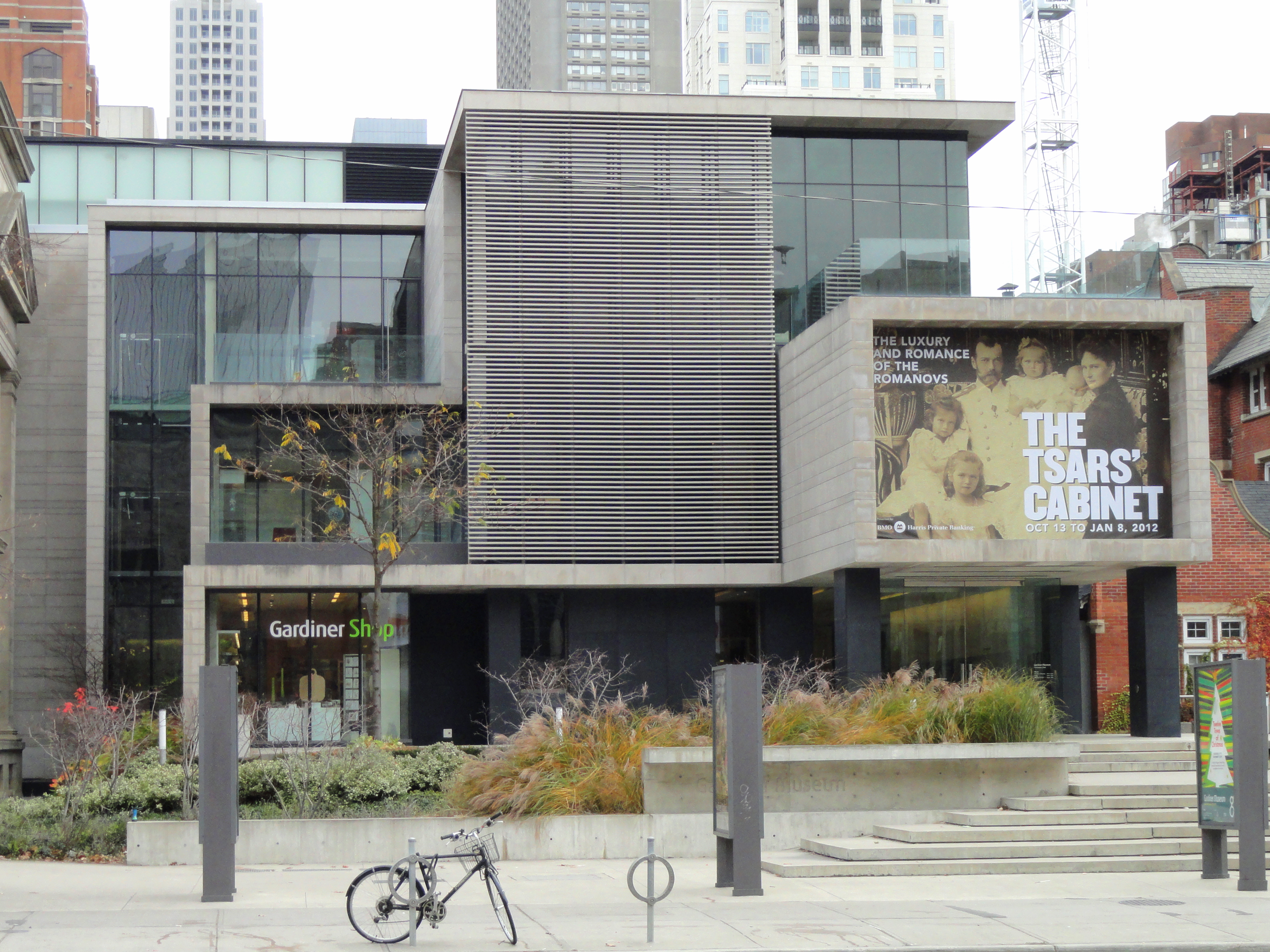 Building in Toronto, Ontario, Canada.